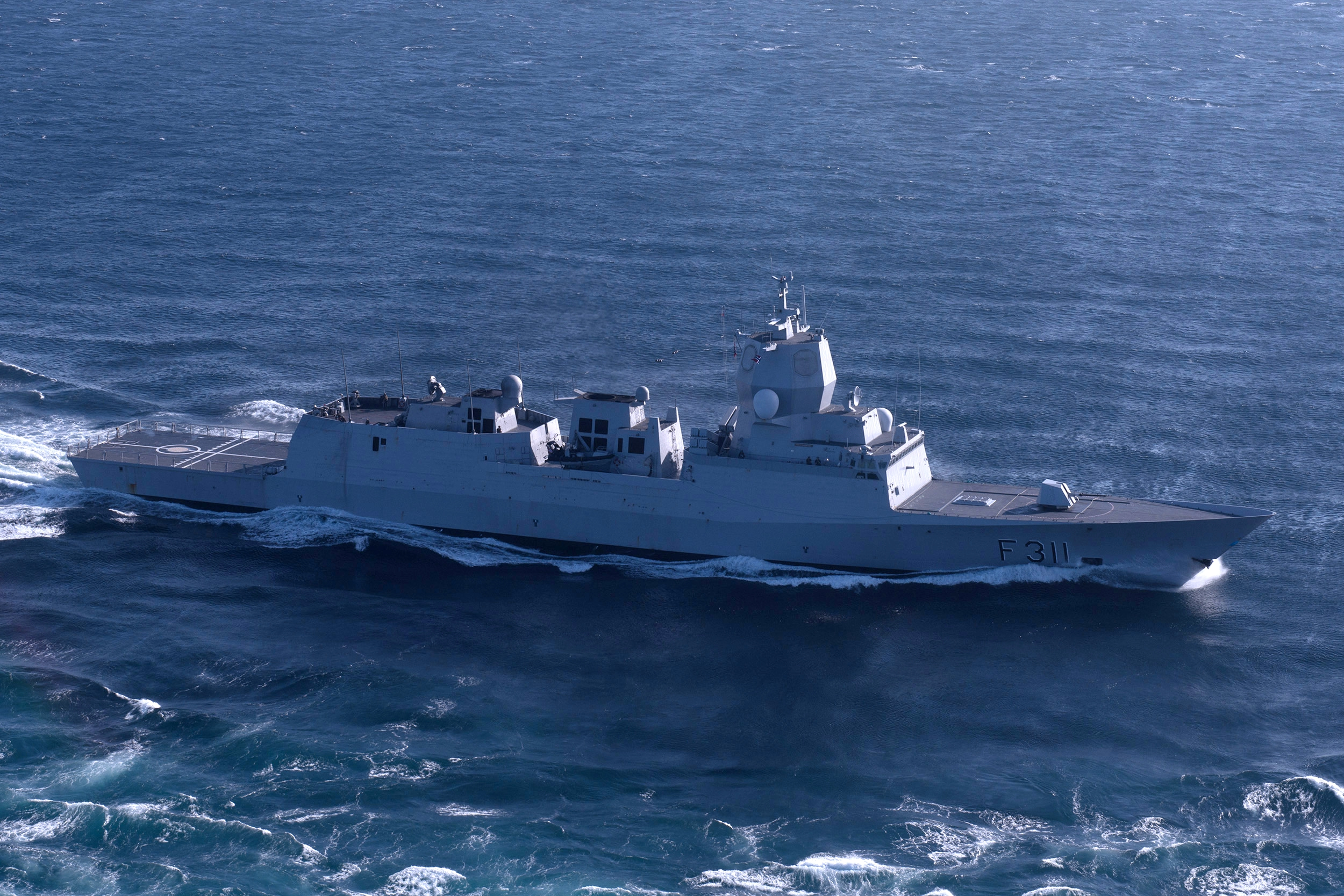 The Royal Norwegian Navy frigate KNM Roald Amundsen (F311) underway in the Atlantic Ocean on 16 February 2018 as part of the U.S. Navy's Harry S. Truman Carrier Strike Group (HSTCSG) while conducting its composite training unit exercise (COMPTUEX). Roald Amundsen was underway for COMPTUEX, which evaluates the strike group's ability as a whole to carry out sustained combat operations from the sea, ultimately certifying the HSTCSG for deployment.